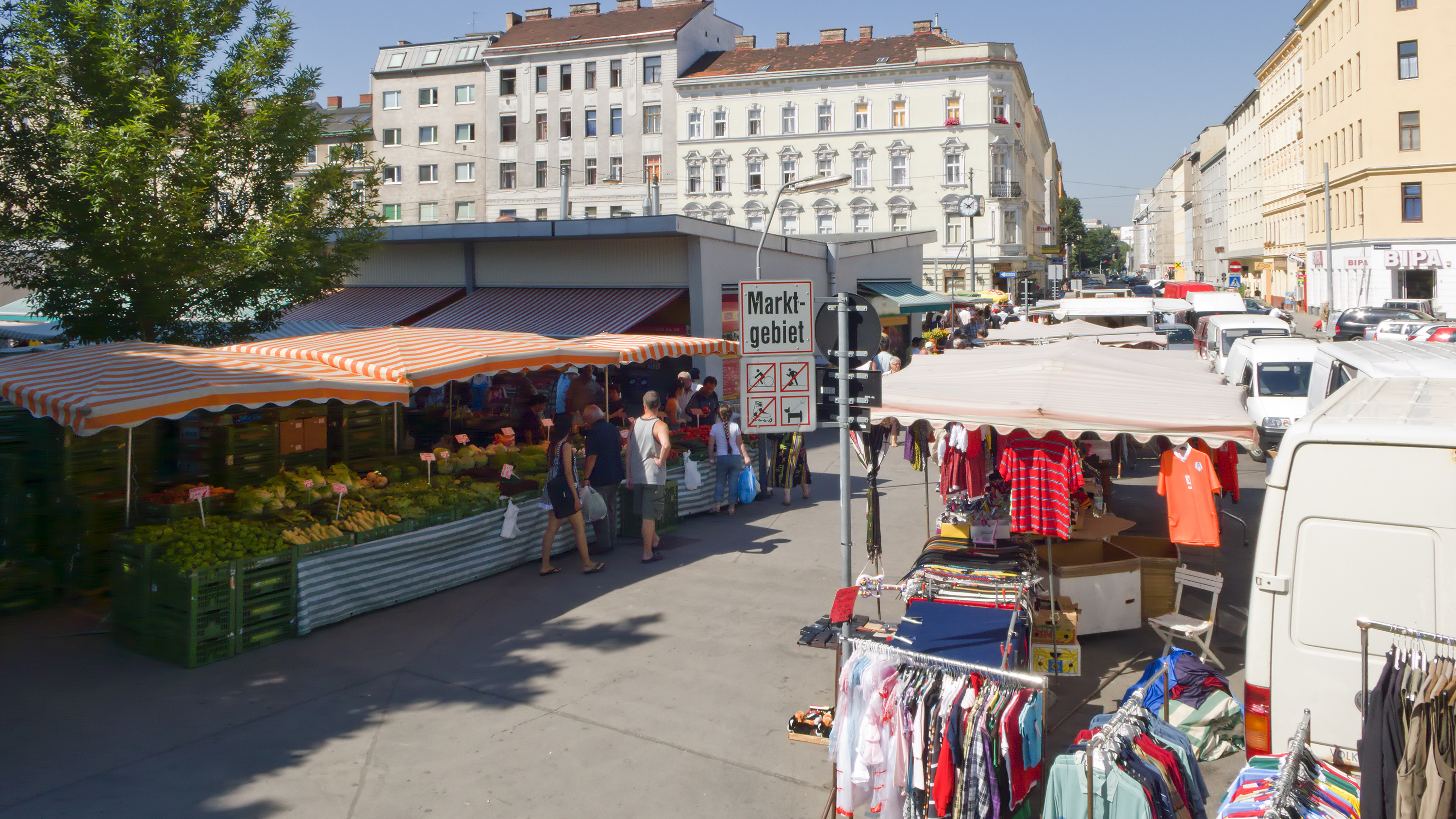 Market Hannovermarkt in Vienna Brigittenau